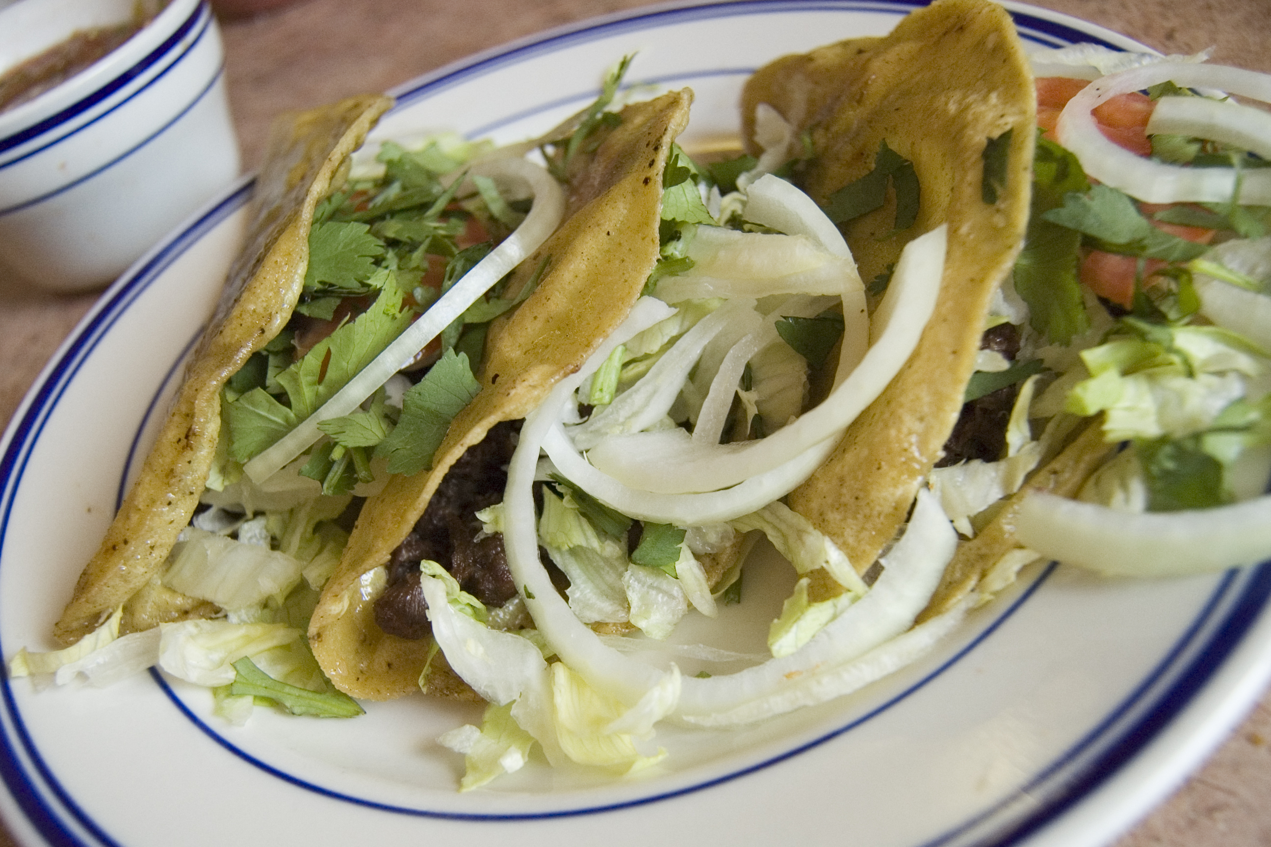 Barbacoa Tacos — “Three corn tortillas filled with your choice of filling, served with lettuce, cilantro, onion and tomatoes” with “Barbacoa - Steamed Beef” as the filling as served by the Nuevo Leon Restaurant at 1515 West 18th Street in Chicago, Illinois, according to their online menu as viewed on 2007-05-30.